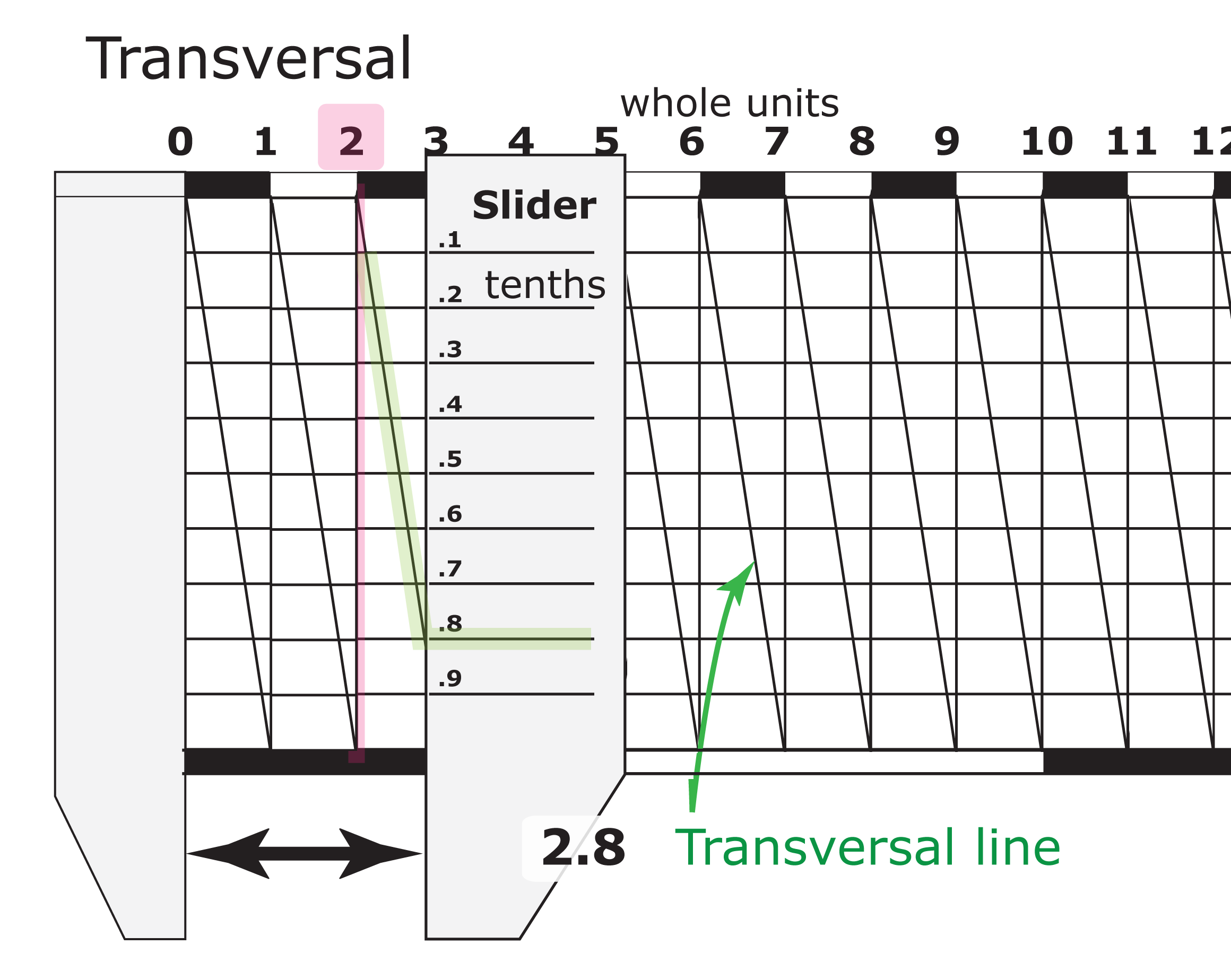 Will Nettles, creator June 24, 2011